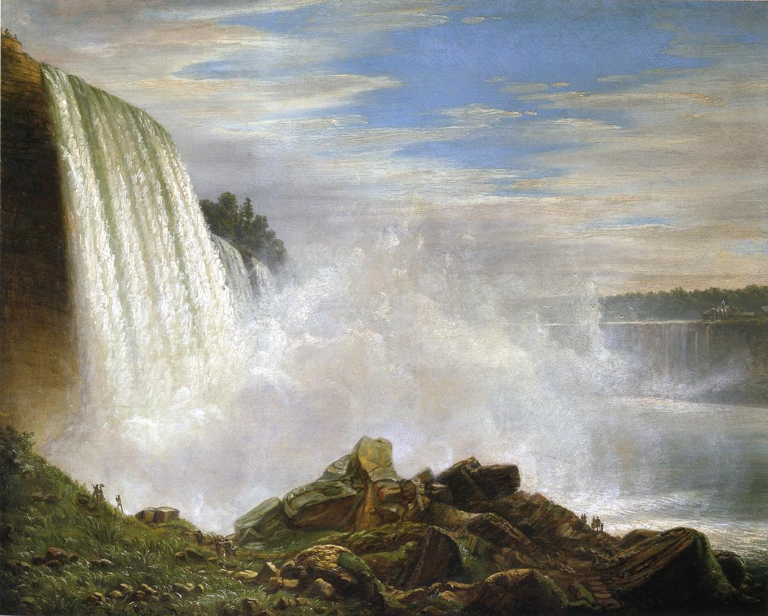 View of Niagara Falls (oil on canvas, 83x109 cm)